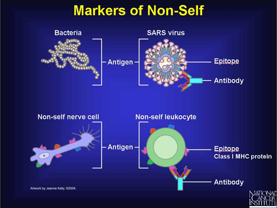 Various entities that can be recognized as foreign (non-self) by the immune system